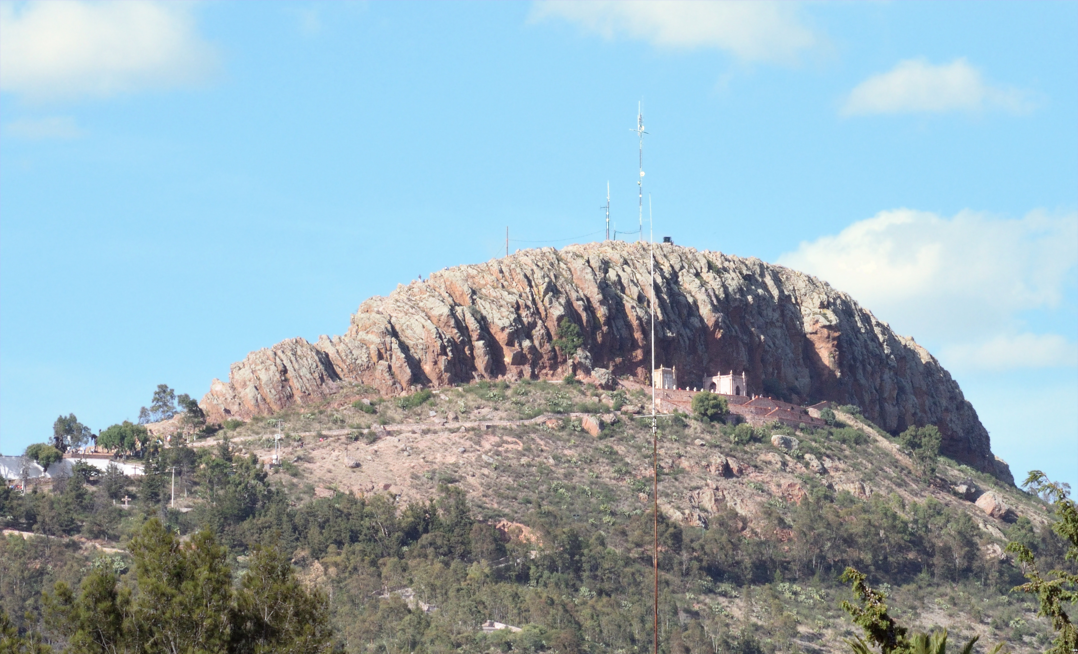 Cerro del la bufa, view from Zacatecas